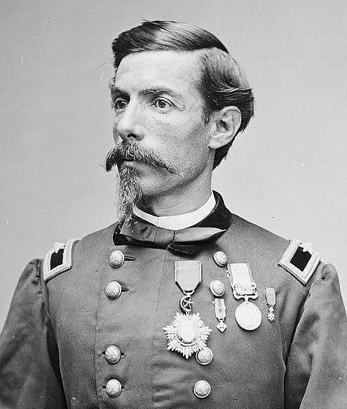 Portrait of Brig. Gen. Alfred N. Duffie, officer of the Federal Army